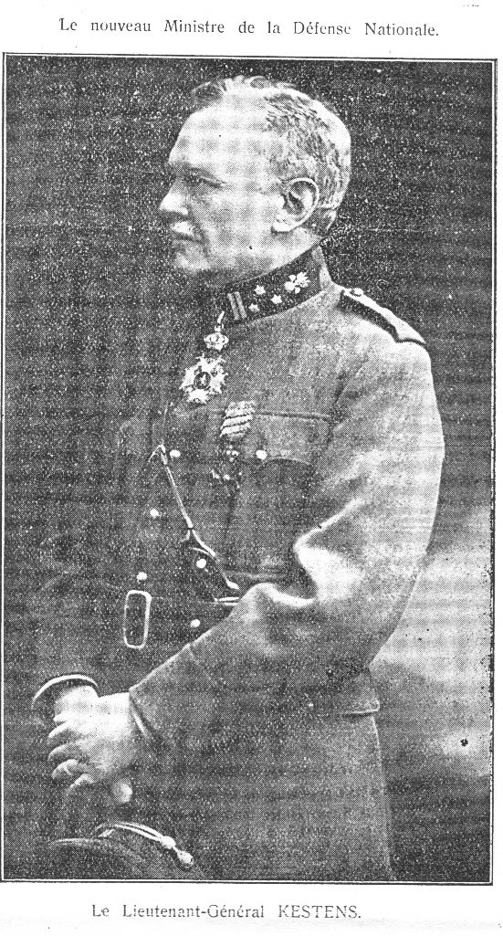 General Kestens, Belgian minister of Defence.